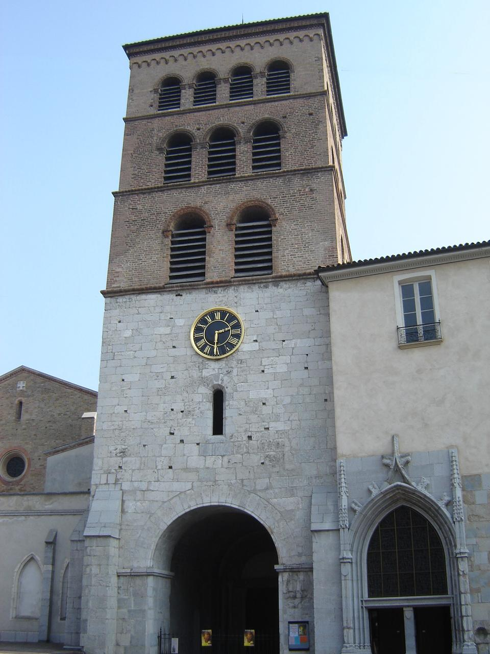 Bell tower of Notre-Dame cathedral, Grenoble